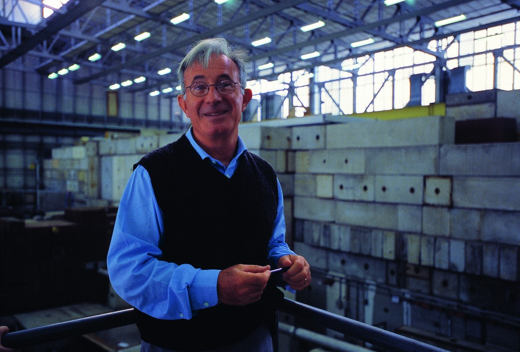 Portrait of Luigi Di Lella, from "60 years of CERN Experiments and Discoveries" (2015), Herwig Schopper and Luigi Di Lella